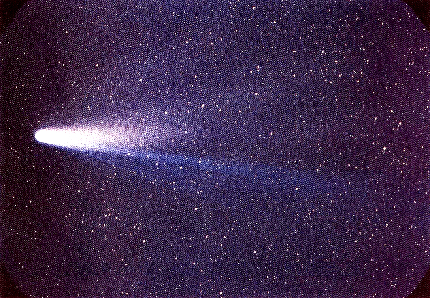 Comet 1P/Halley as taken March 8, 1986 by W. Liller, Easter Island, part of the International Halley Watch (IHW) Large Scale Phenomena Network.